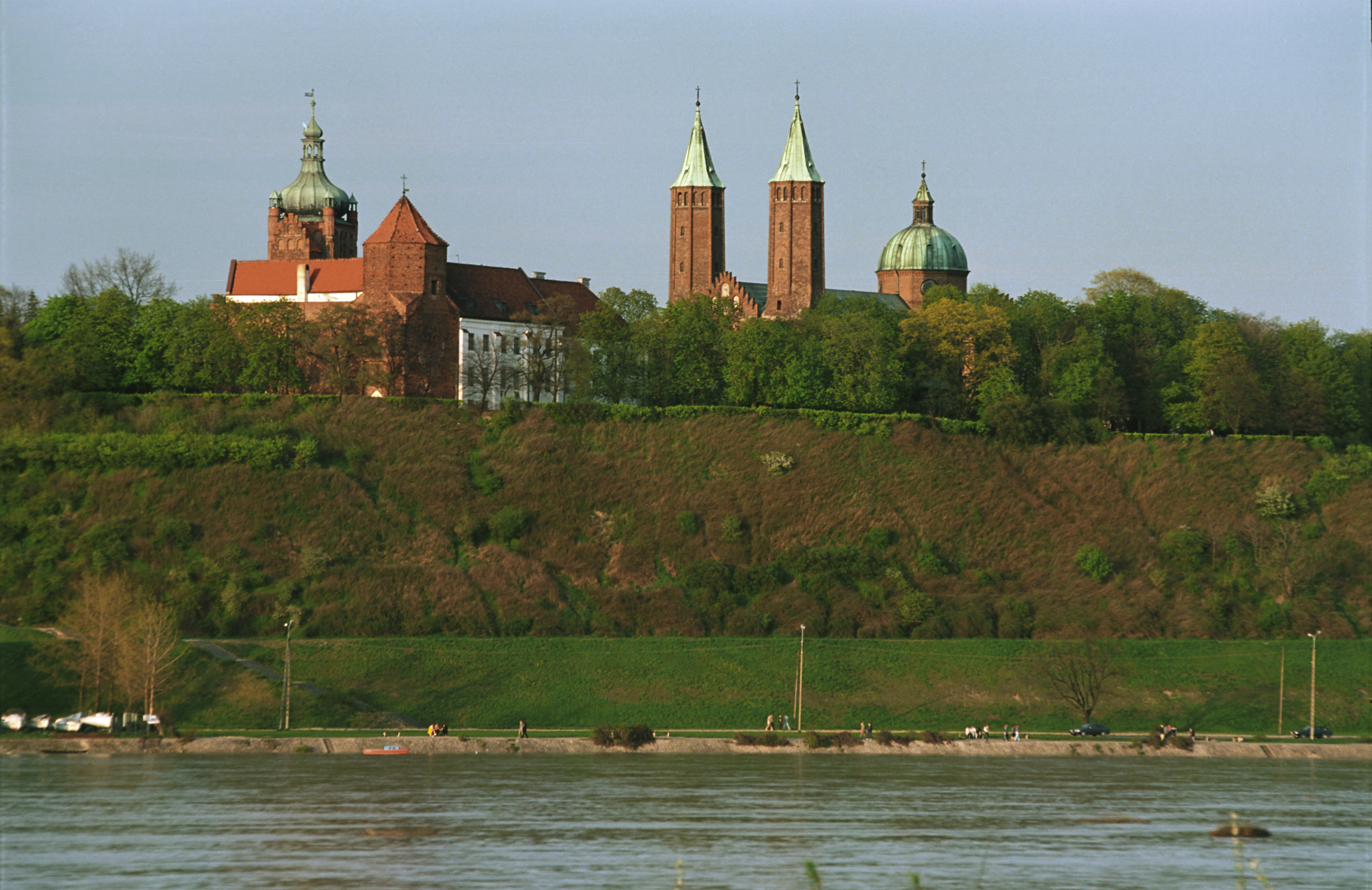 Poland, Plock Castle